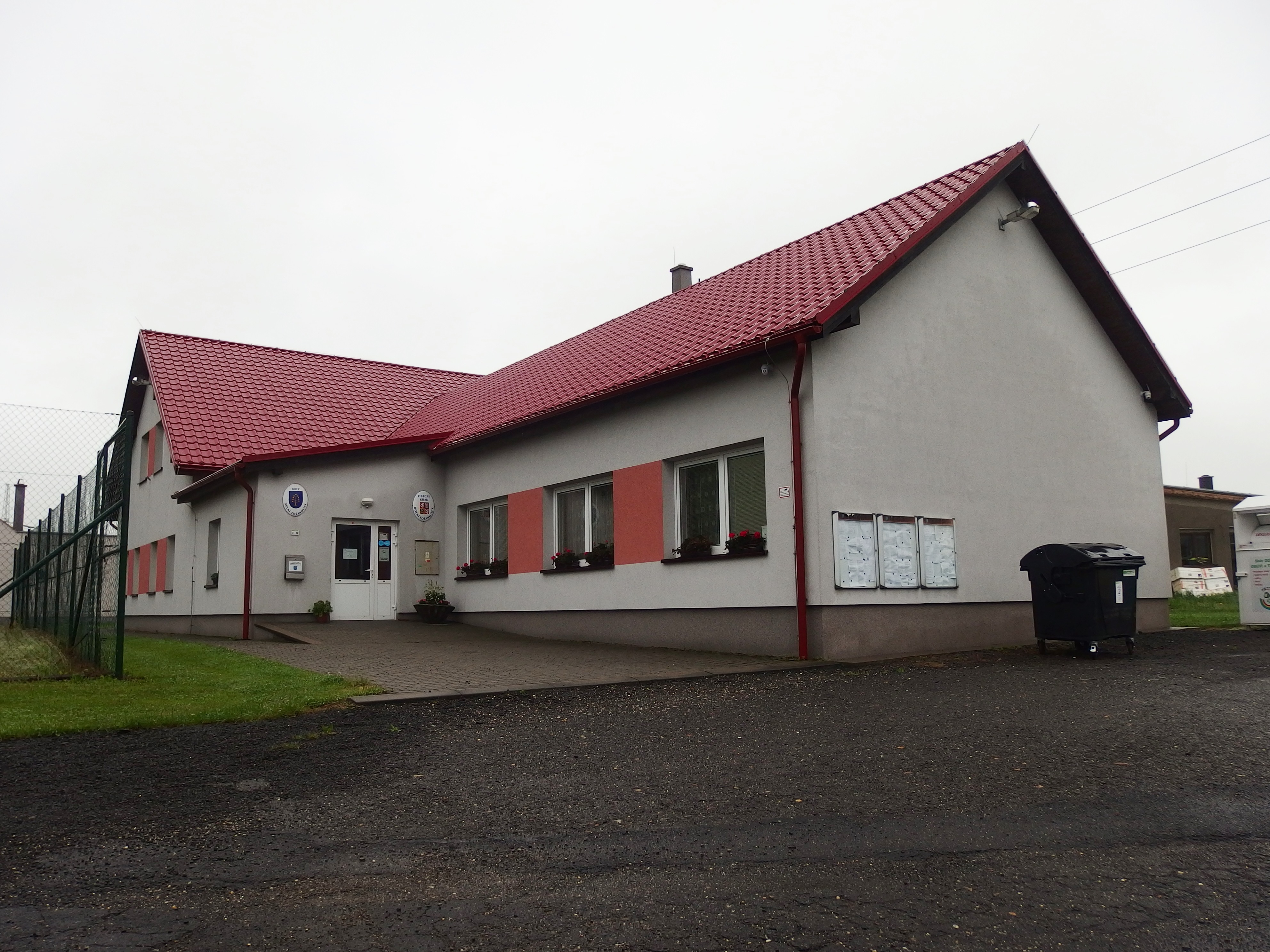 Dolní Tošanovice, Frýdek-Místek District, Czechia.